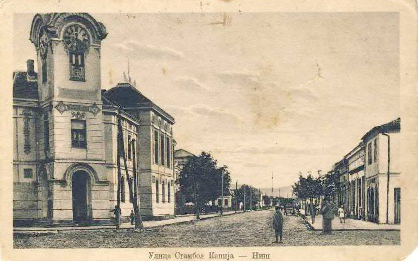 Niš, between the two World Wars Srpski (latinica): Niš, između dva rata. S leve strane ulice Stambol kapija, u nastavku Sreskog načelštva, započeta je gradnja gimnazije 1912.